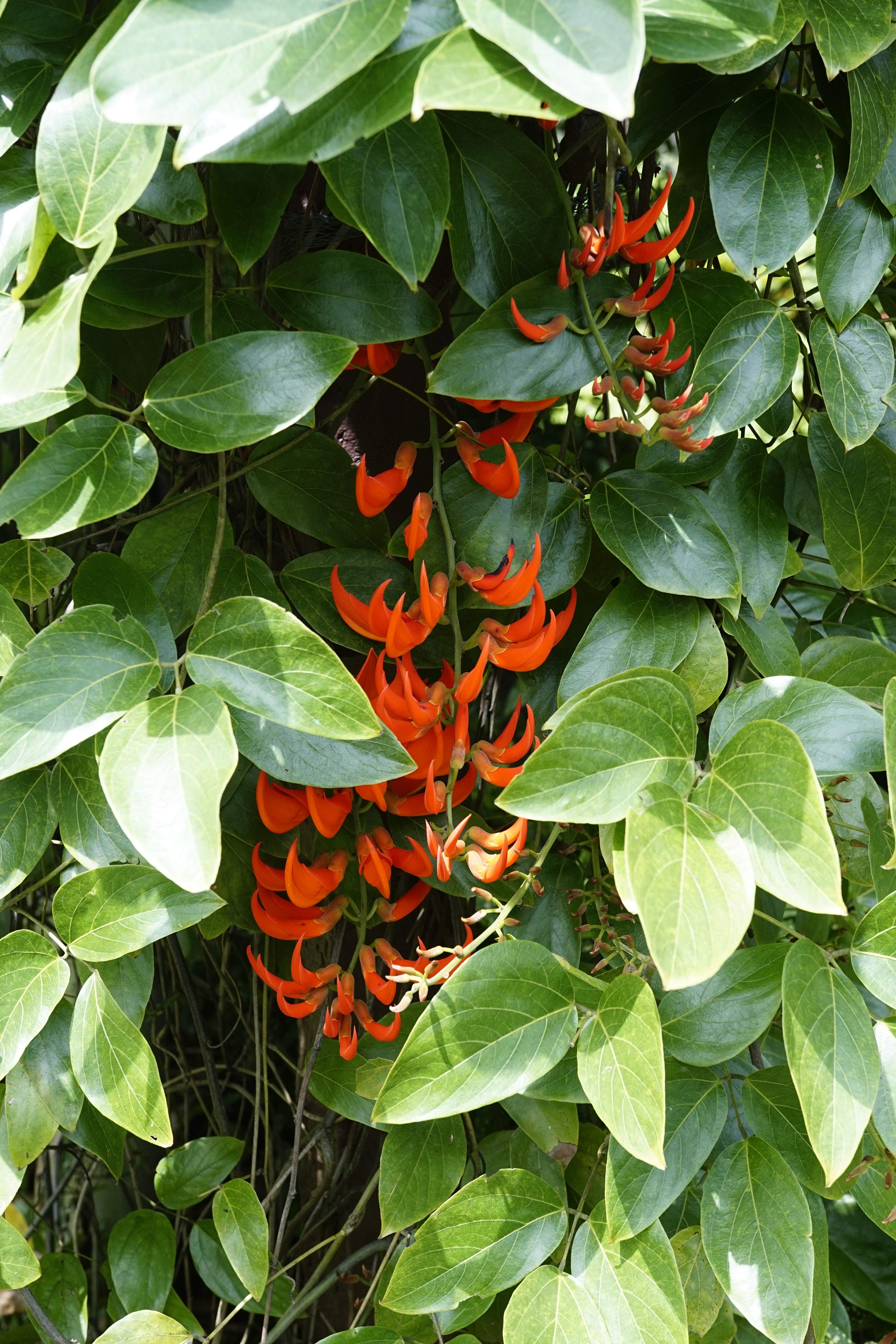 Nilambur